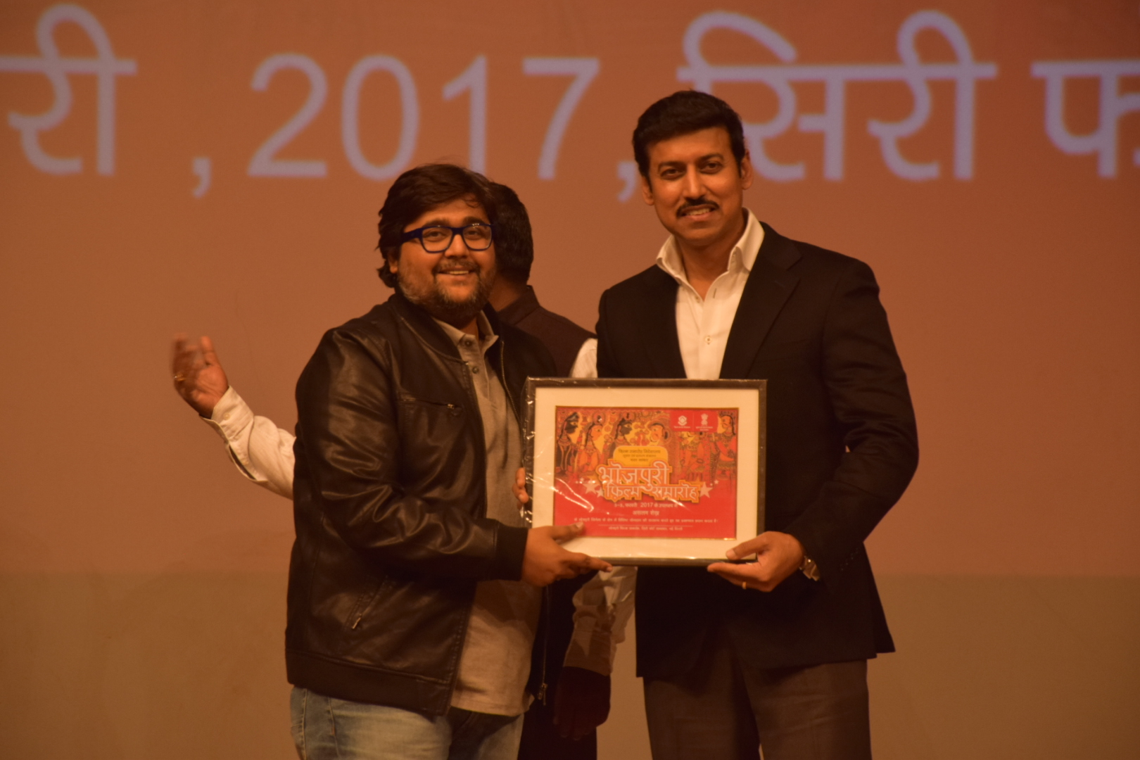 2017 Delhi, Mahesh Pandey honoured by Minister of IAB, Shri Raj Vardhan Rathore